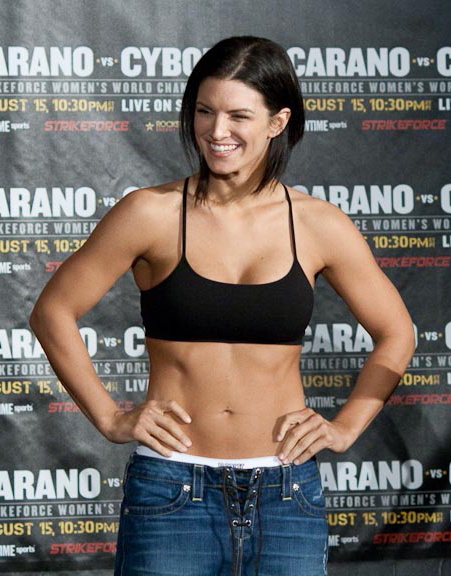 Mixed martial arts fighter Gina Carano at the weigh-in before the Strikeforce: Carano vs. Cyborg event.